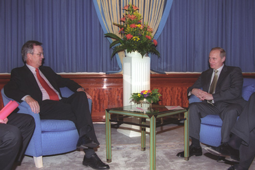 HOTEL PALACE, BERLIN. President Putin with Siemens CEO Heinrich von Pierer.